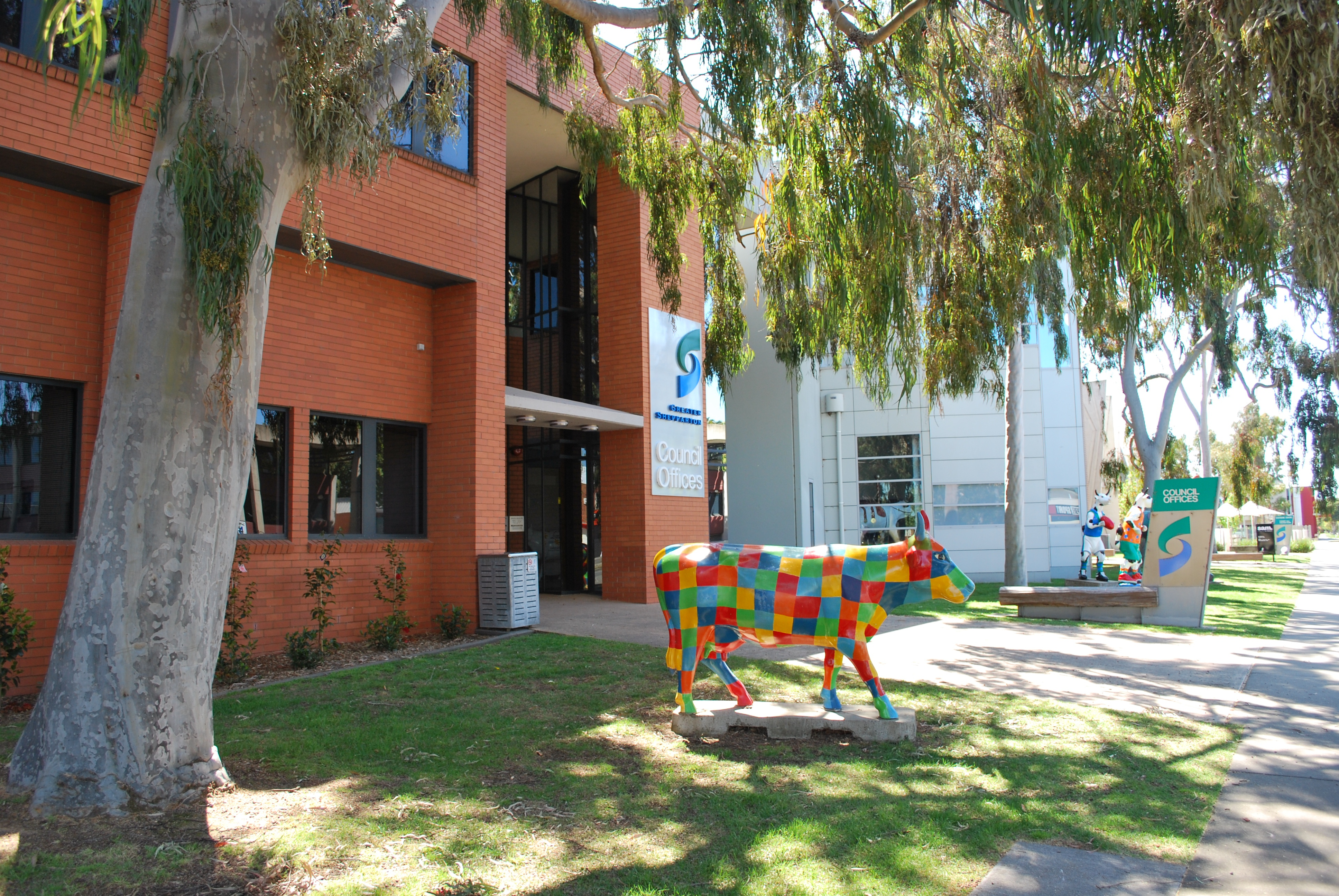 A statue of a cow outside the offices of the City of Greater Shepparton in Shepparton, Victoria